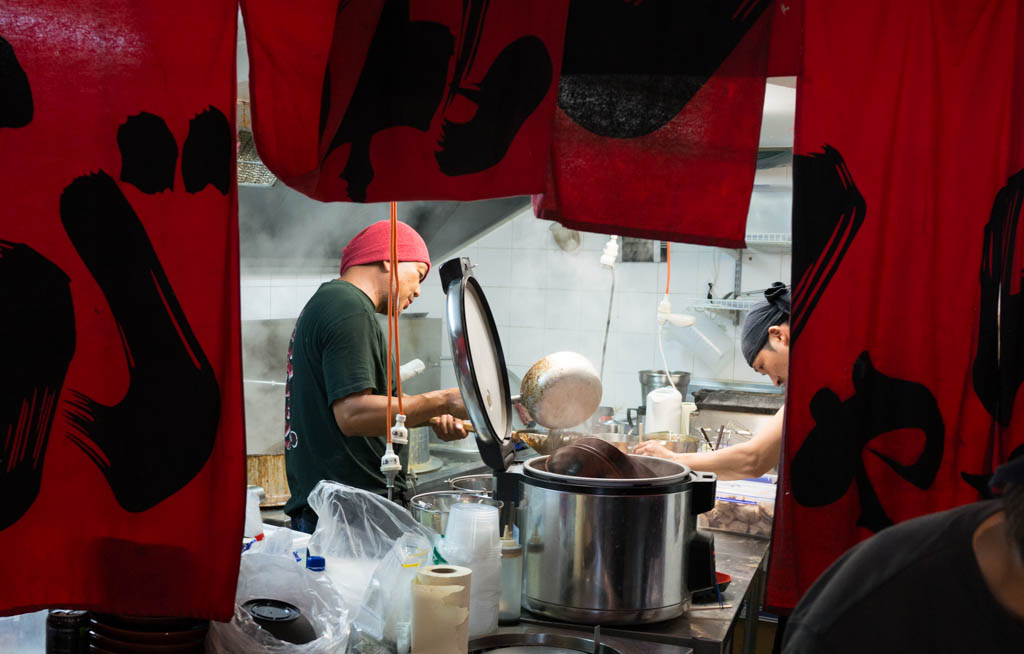 Appearance during cooking.